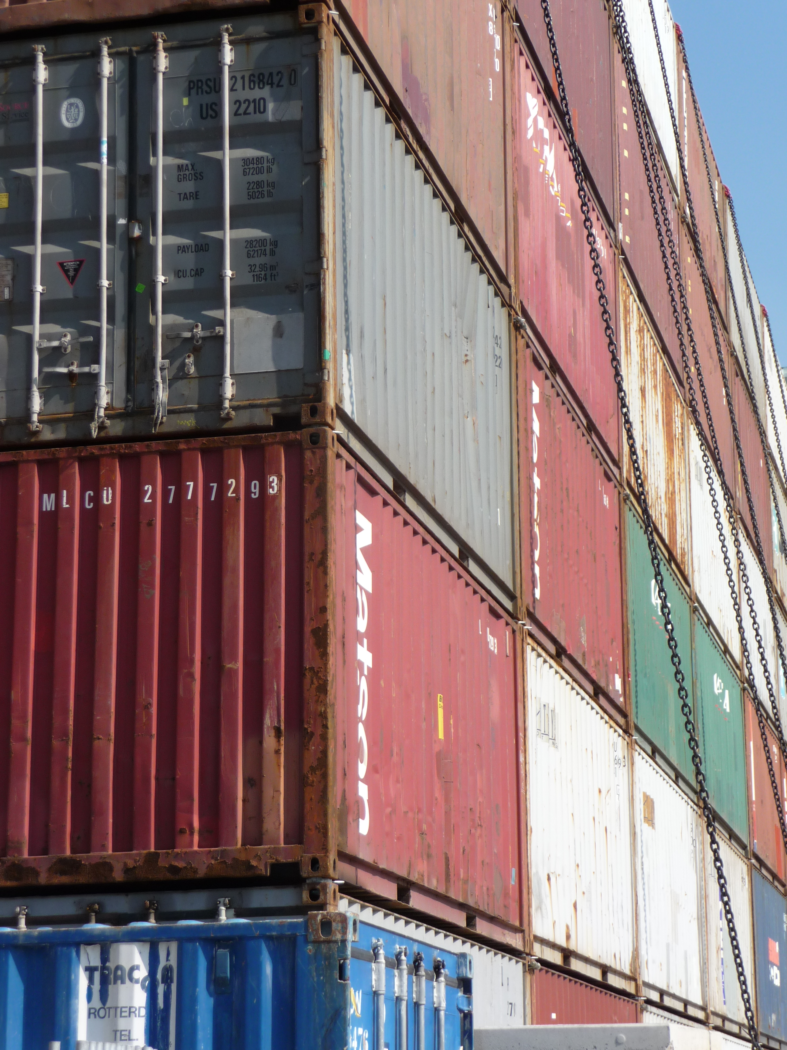 Containerwall in The Hague, The Netherlands